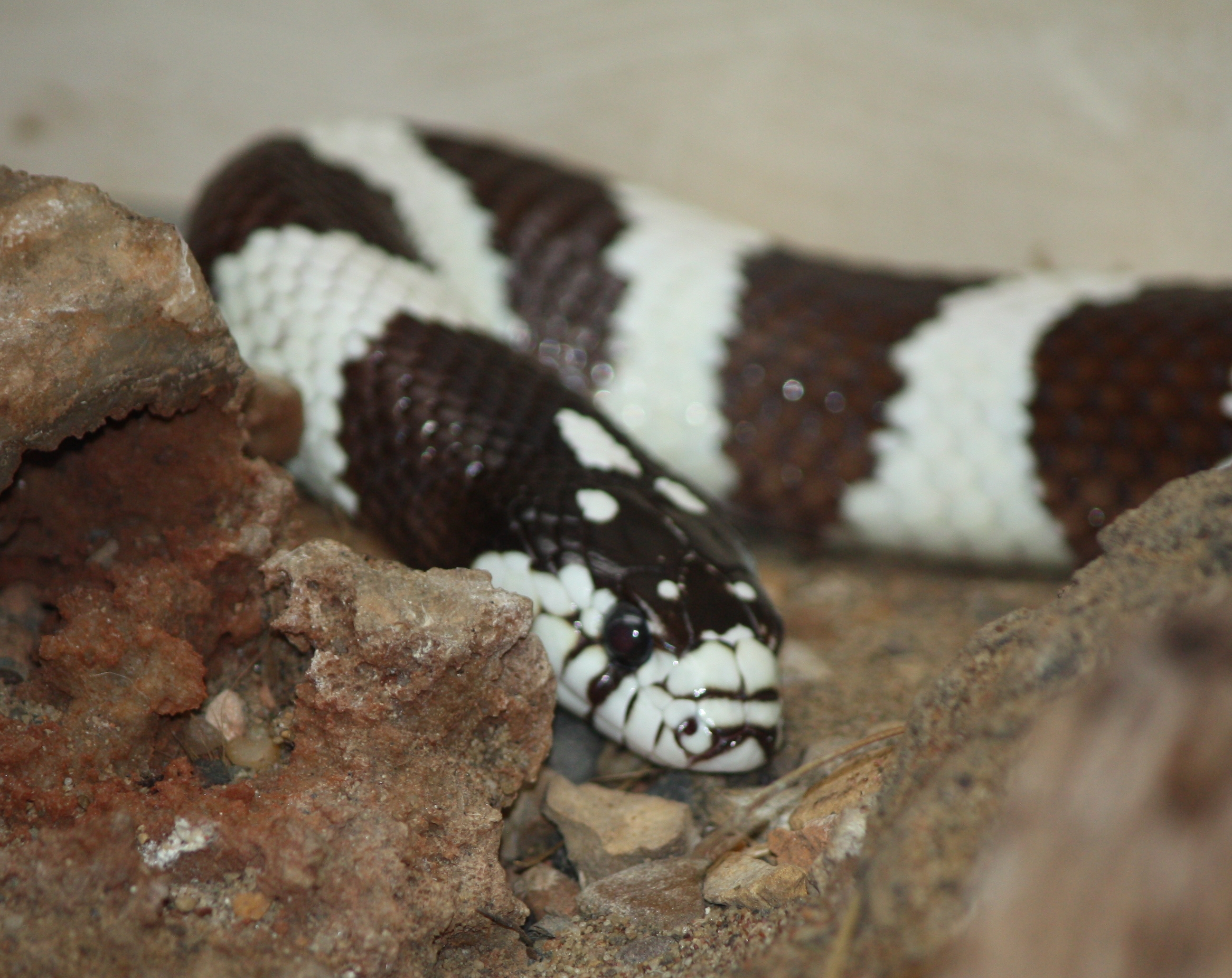 California Kingsnake (Lampropeltis getula californiae) at the Louisvill Zoo